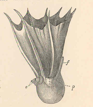 Amphitretus pelagicus Hoyle, off Kermadee Is. Subject: Amphitretus Tag: Mollusks